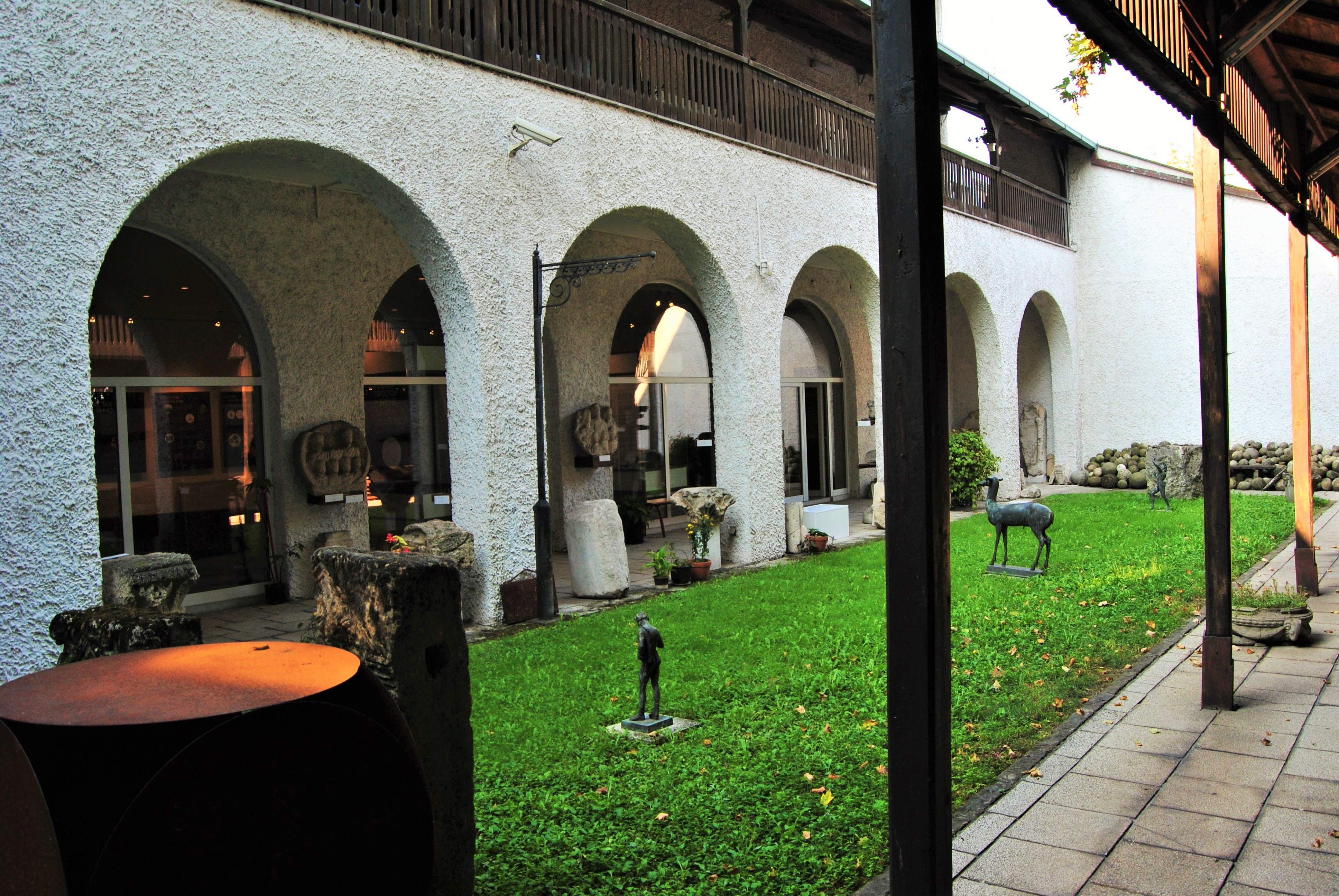 The garden of the Museum in Smederevo